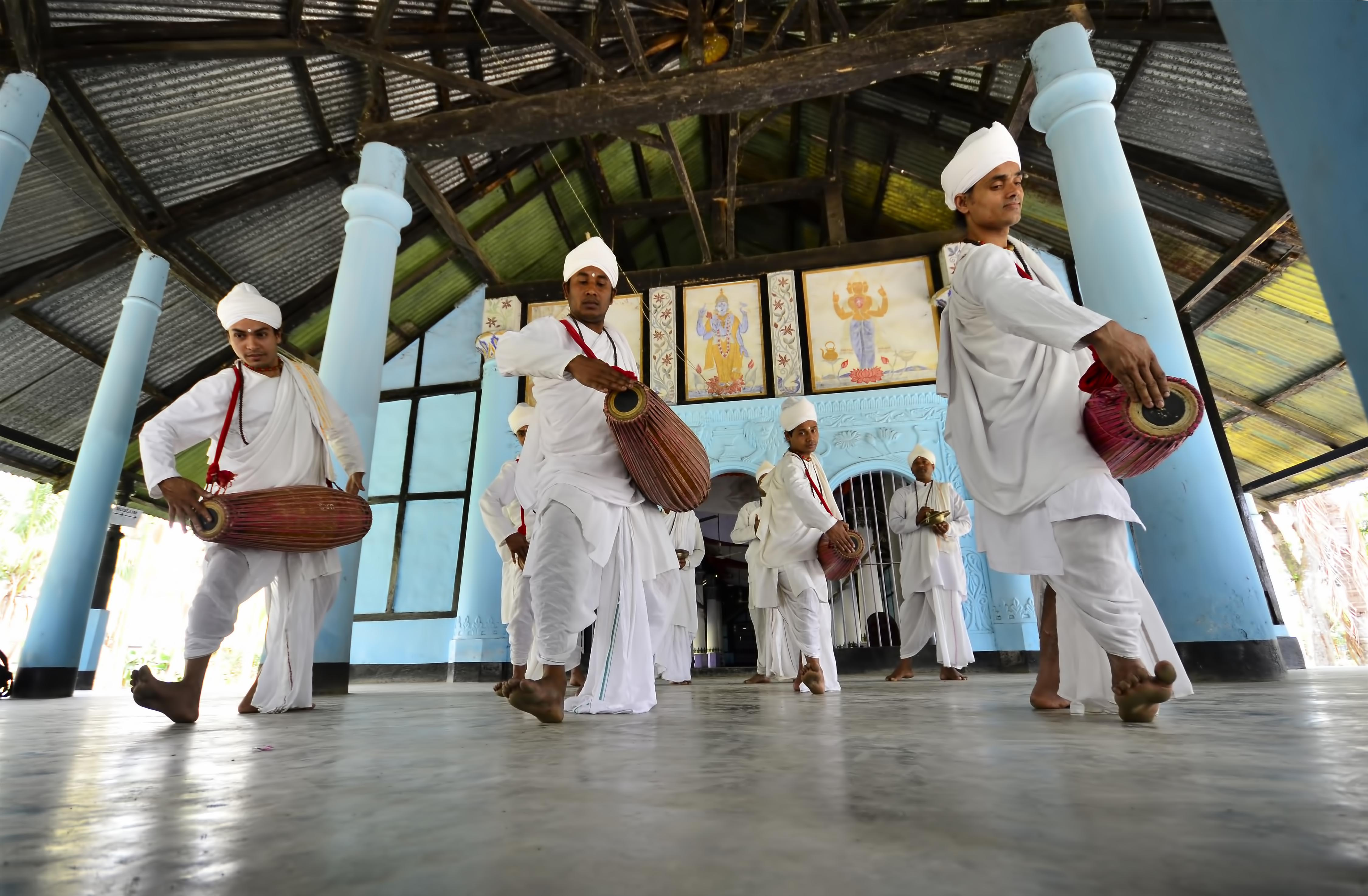 Gayan Bayan : Gayan-Bayan is an another traditional performance of sattriya culture. This program is a combination of playing of Khols and Taal accordingly singing devotional songs in a synchronizing manner. The singer is called ‘gayan’ and the instrument players are called ‘bayans’. The vaishnavic disciples plays Gayan-Bayan at the beginning of any cultural program, festivals, mythological dramas (Bhaona) etc.